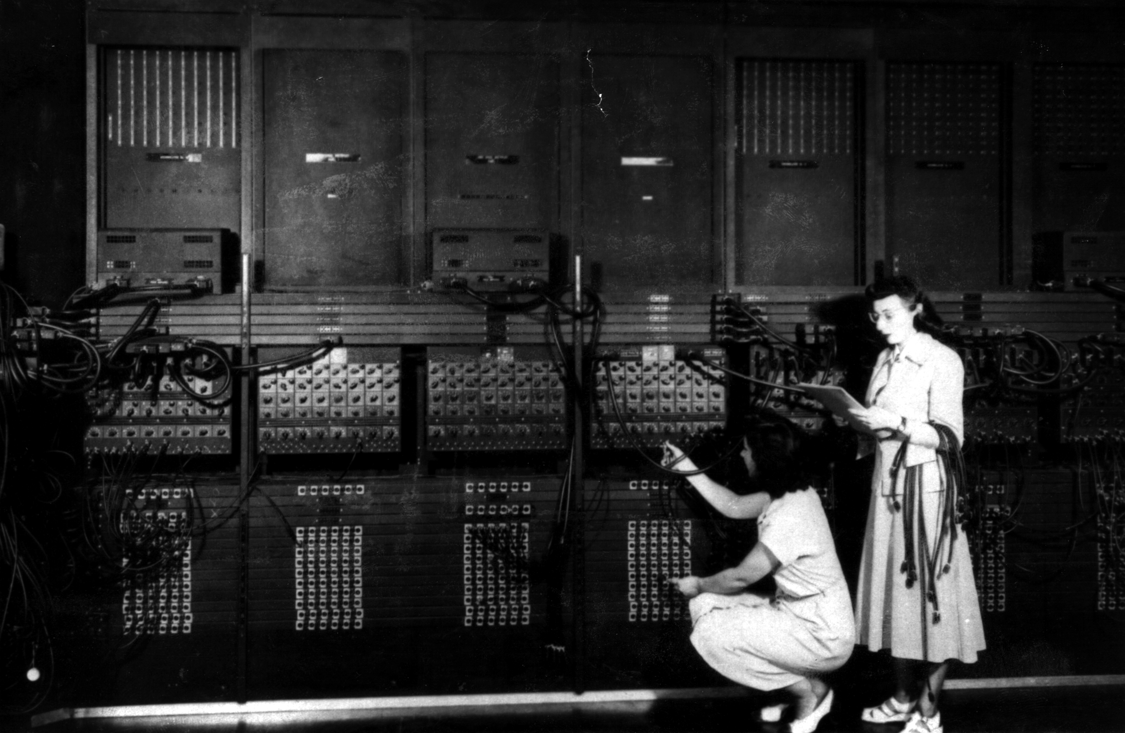 These US Army photos from the archives of the ARL Technical Library: Two women wiring the right side of the ENIAC with a new program, in the "pre- von Neumann" days. "U.S. Army Photo" from the archives of the ARL Technical Library. Standing: Marlyn Wescoff Crouching: Ruth Lichterman